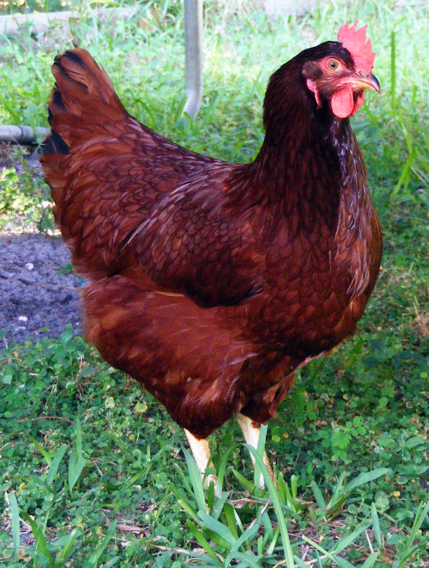 A picture of our Rhode Island Red, her name is Amber Bock.